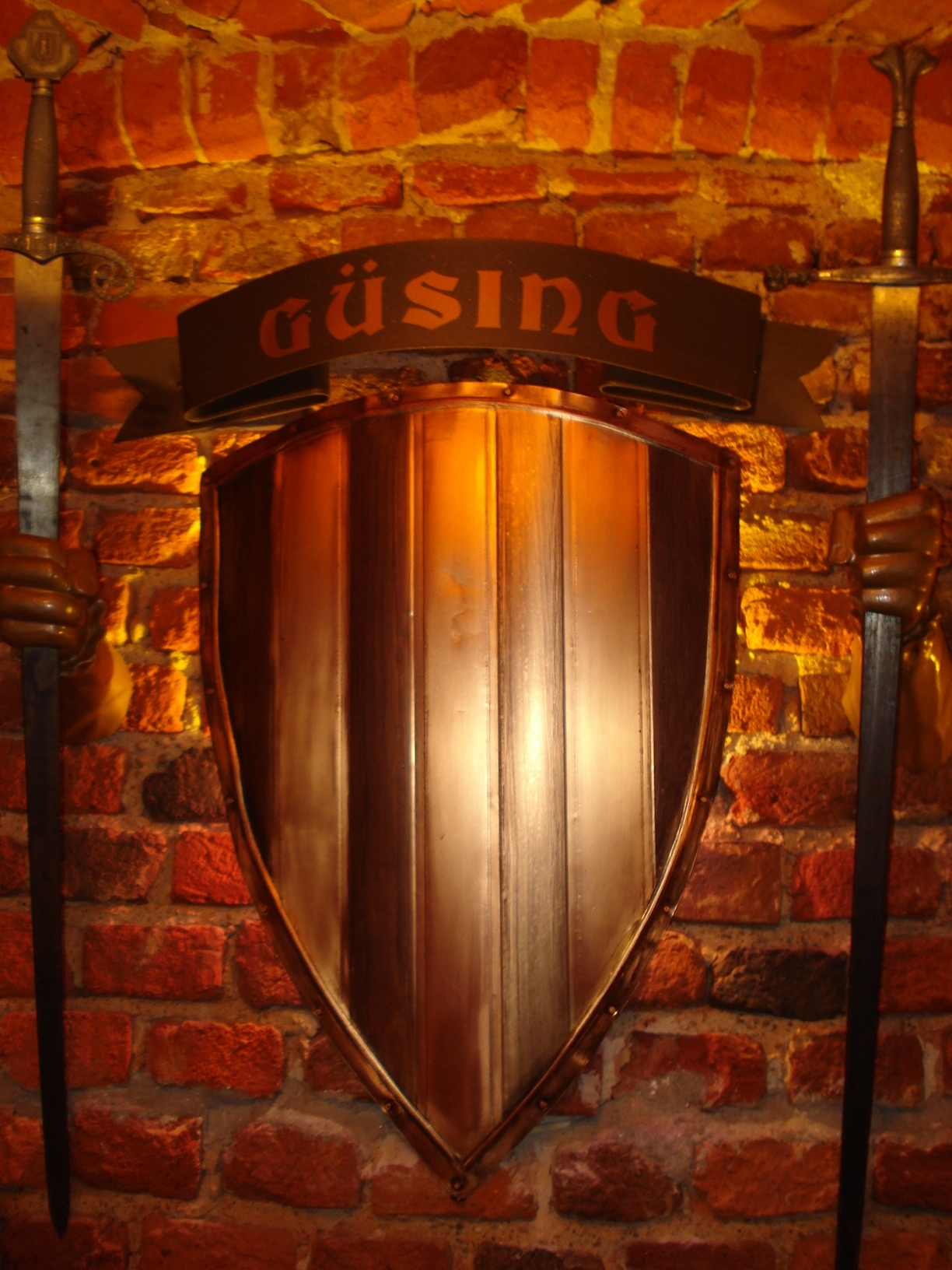 Coat of arms of the Counts of Güssing, Lords of Medjimurje County (Croatia) in the 13th and 14th century